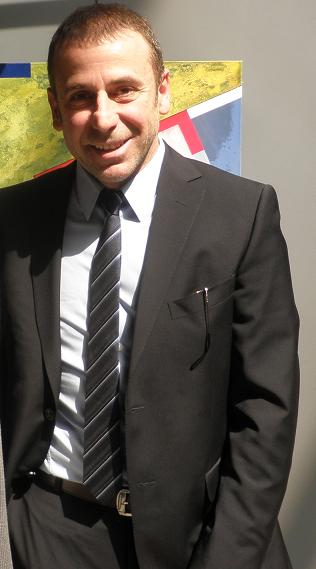 Abdullah Avcı, is a Turkish football manager.(taken in METU)